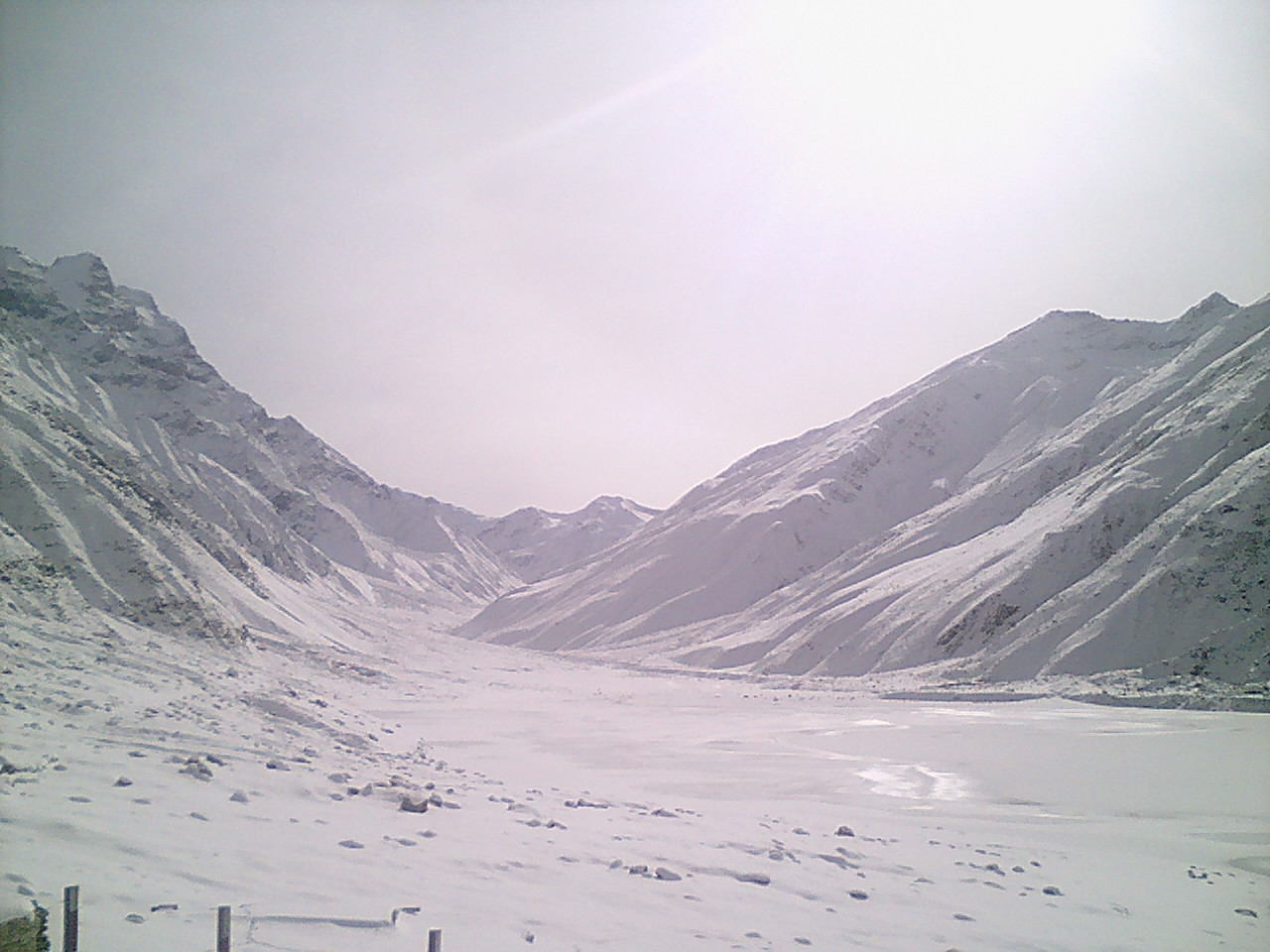 View of Saiful Muluk Lake (Pakistan) in winters